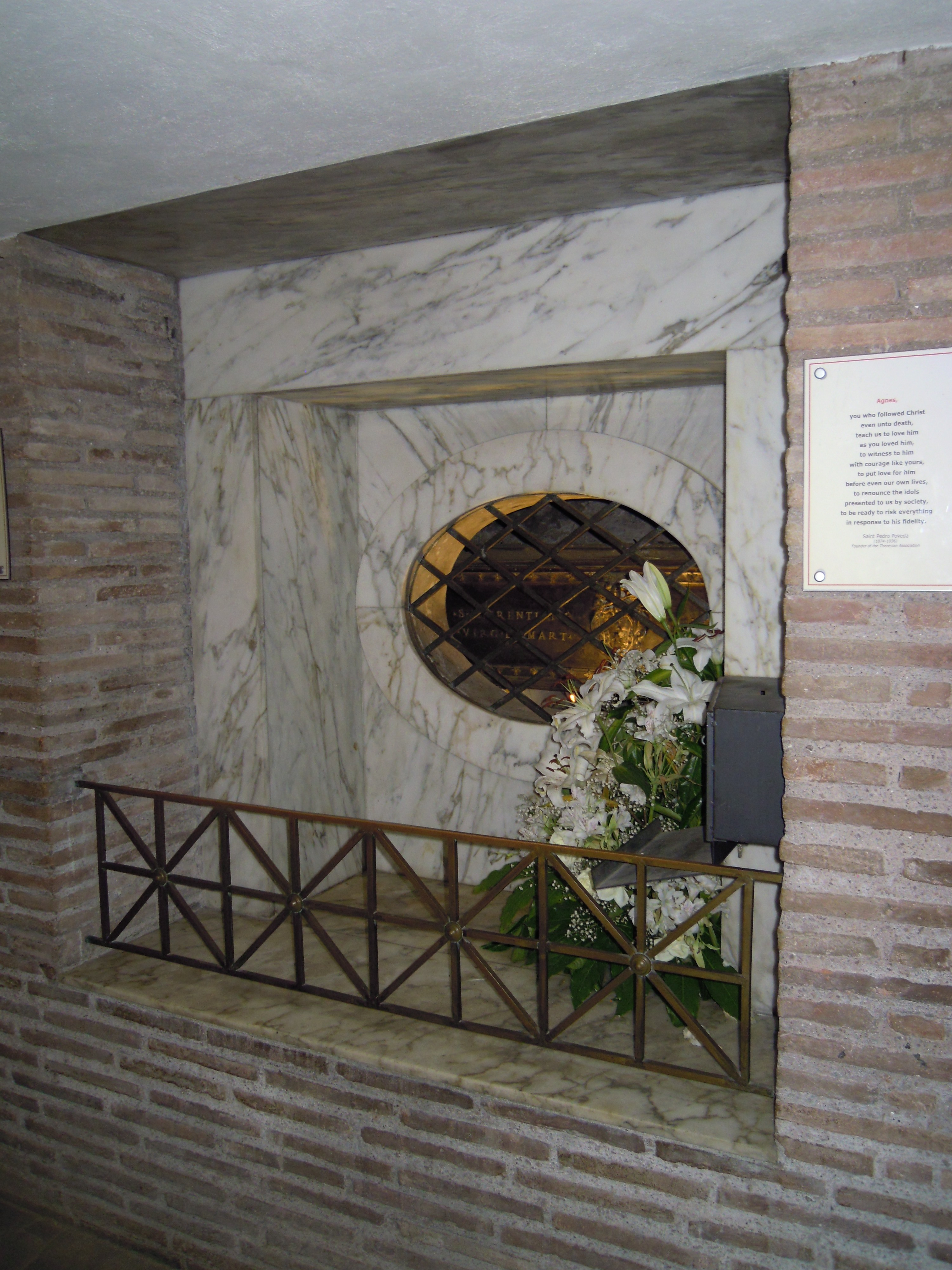 St. Agnes and St. Emerenziana tomb in the crypt of the Basilica of St. Agnes outside the walls (Rome)